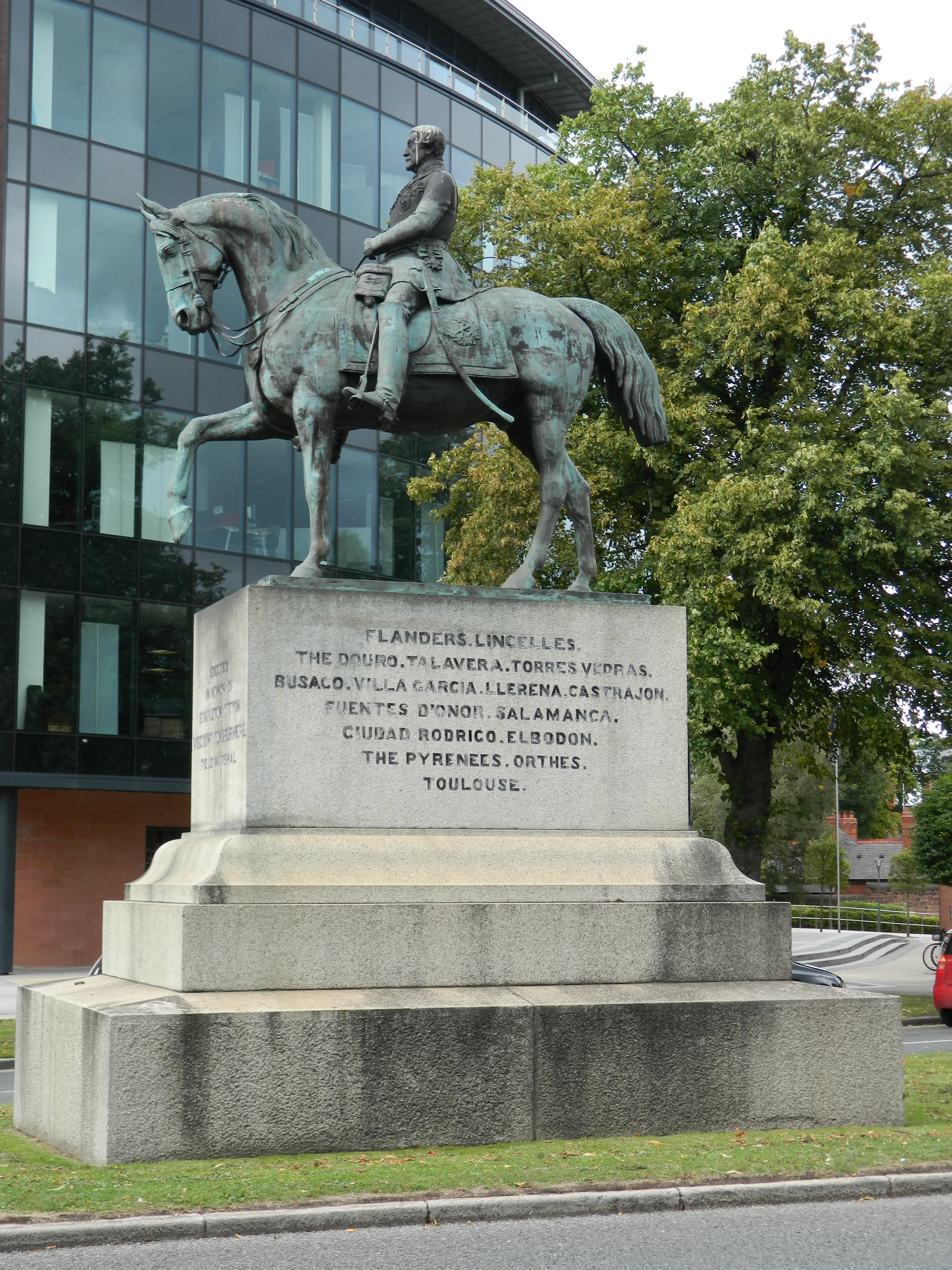 Equestrian Statue of Stapleton Cotton Viscount Combermere, Chester